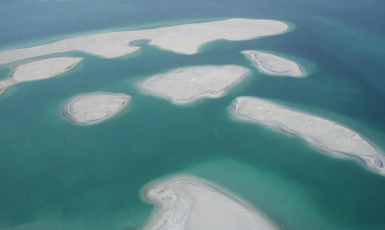 This is a photo showing some of the islands in The World in Dubai, United Arab Emirates as seen from the air on 1 May 2007.